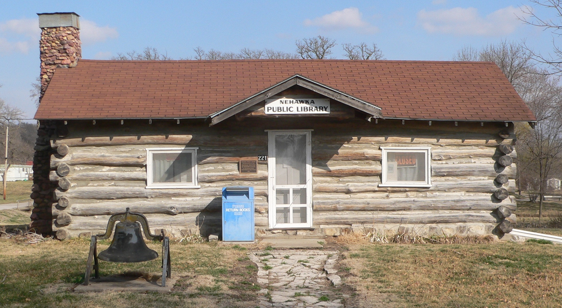 Nehawka Public Library, located at 221 Maple Street (southeast corner of Elm and Maple) in Nehawka, Nebraska; seen from the west.